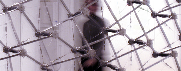 A full scale actuated tensegrity prototype built from cast aluminium, wire and stainless steel components by Tristan d'Estree Sterk and The Office for Robotic Architectural Media (2003)